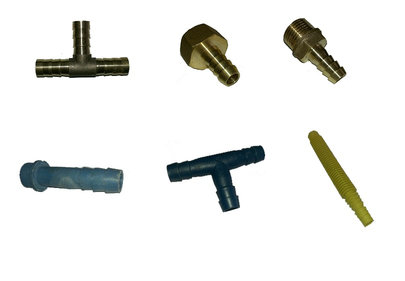 shtucer fiting